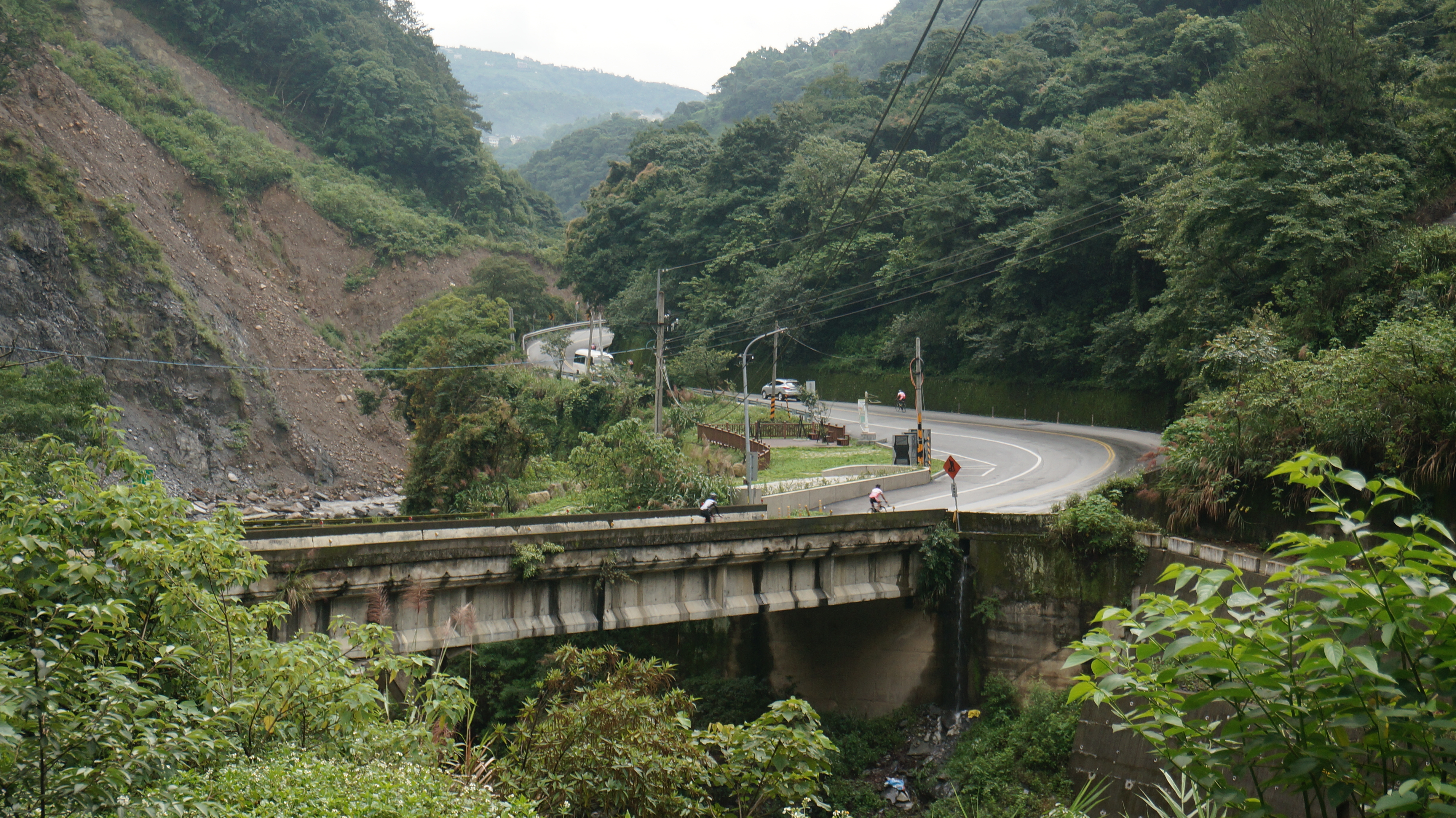 These are photos on the road from Puli to Wushe.